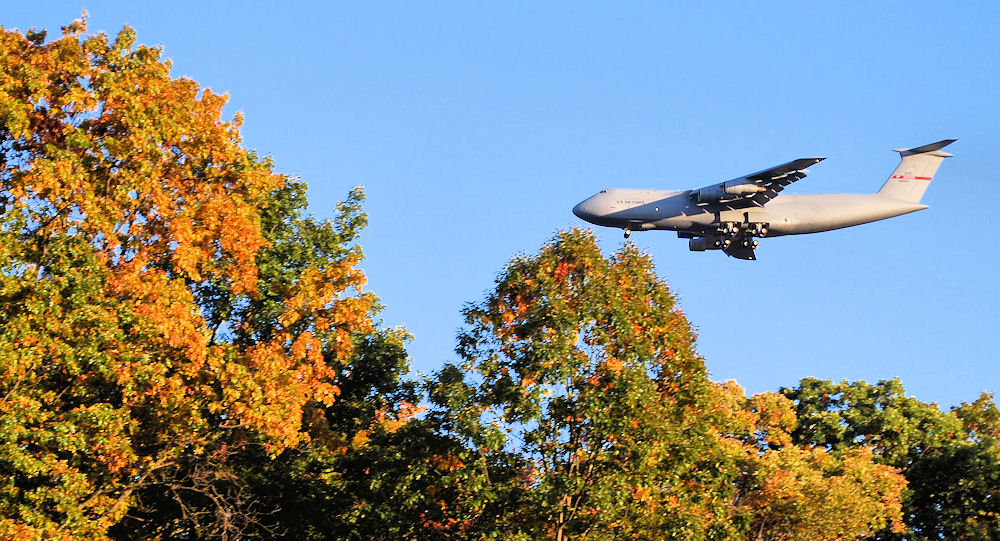 Fall arrival The trademark foliage of New England appears to surround a Patriot Wing C-5 preparing to land at Westover. The mission of the 439th Airlift Wing is worldwide strategic airlift. The C-5 is the largest aircraft in the Air Force. (US Air Force photo/Tech. Sgt. Andrew Biscoe)